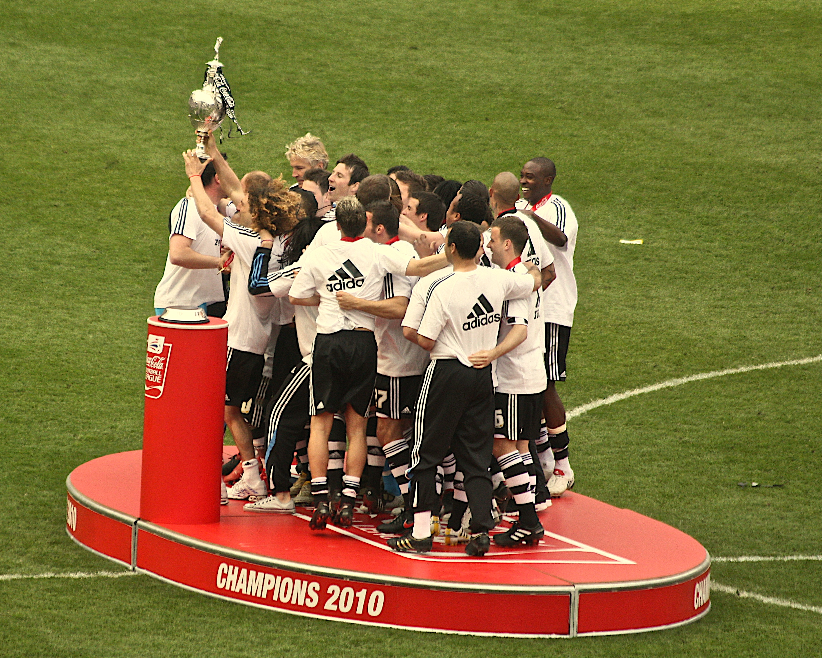 Championship Winners 2010